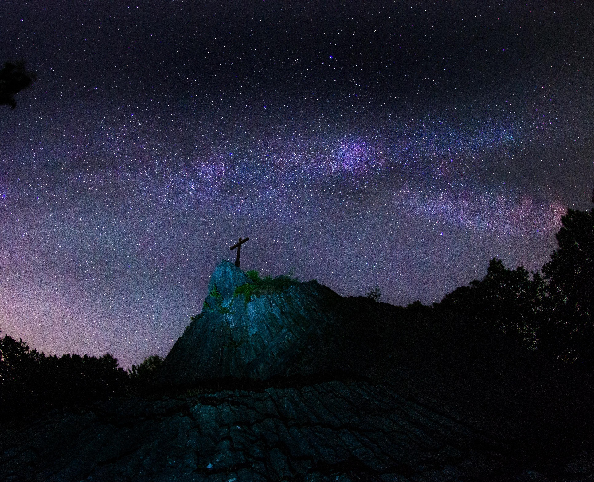 Druidenstein under the milky way.